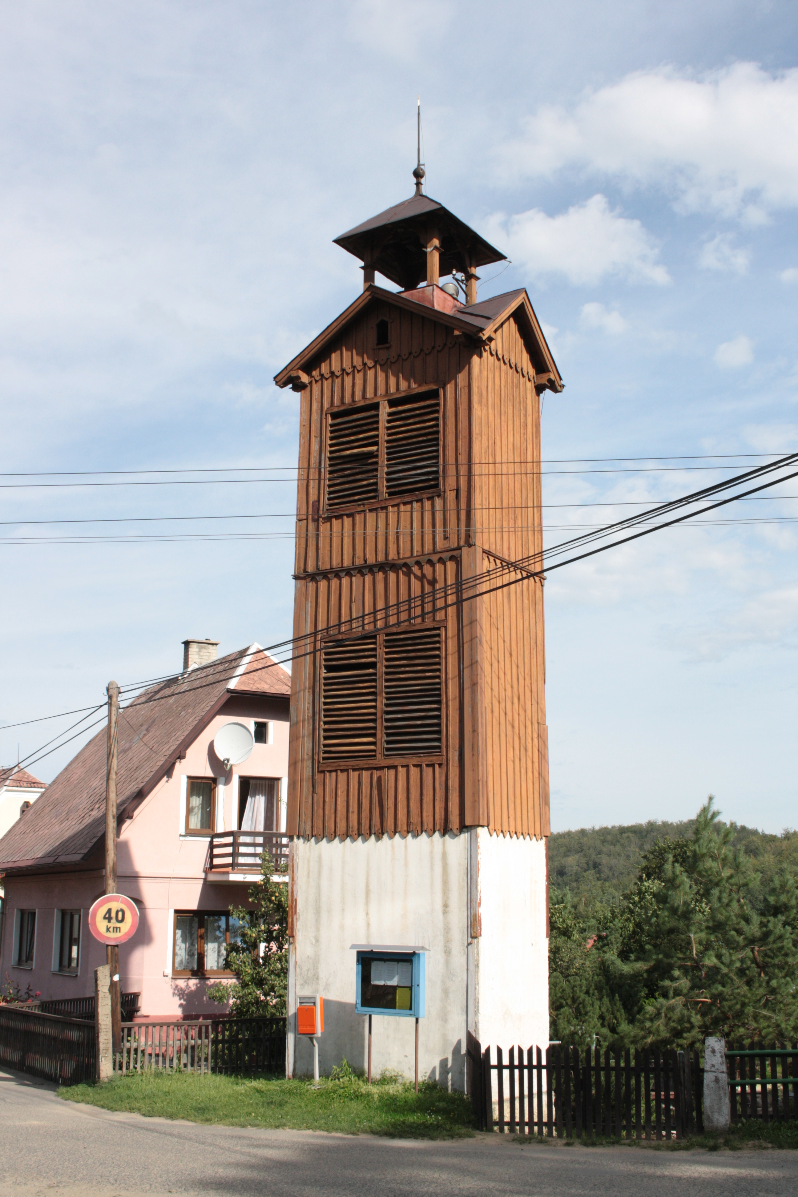 This photograph was taken with a DSLR from WMCZ's Camera grant. Zvonice ve Ferdinandově, součásti Hejnic v Libereckém kraji.